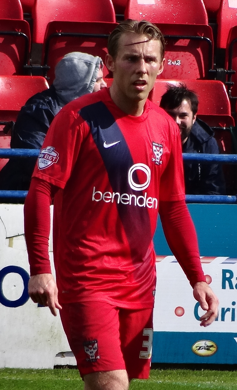 Danny Galbraith playing for York City against Bristol Rovers at Bootham Crescent, York on 30 April 2016